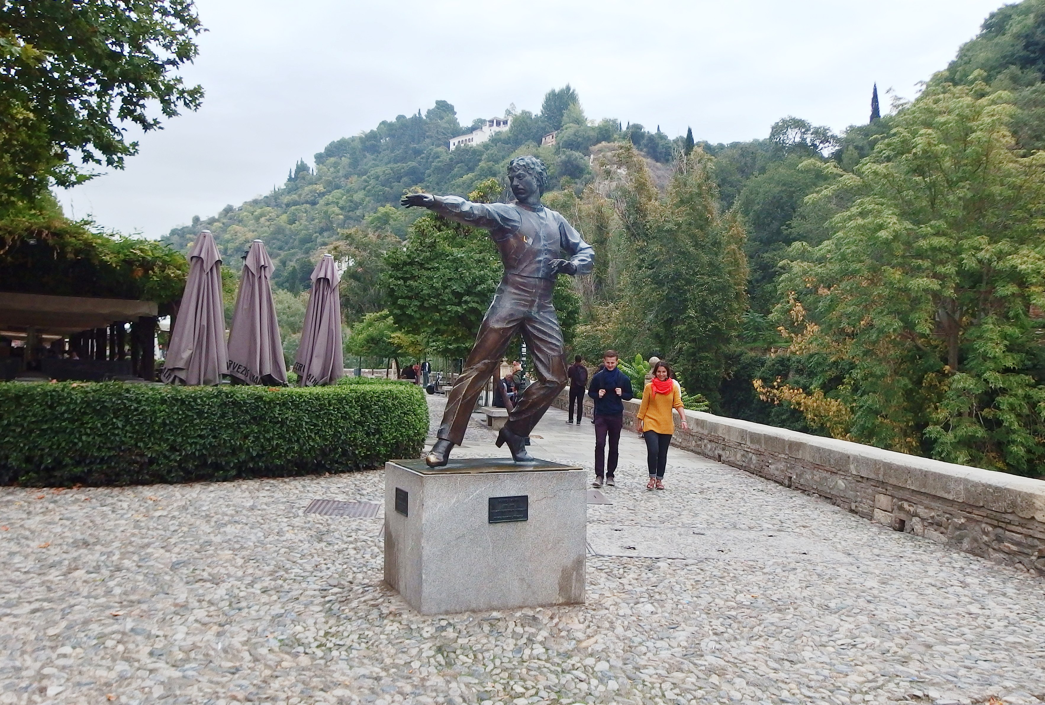 Granada, Spain.